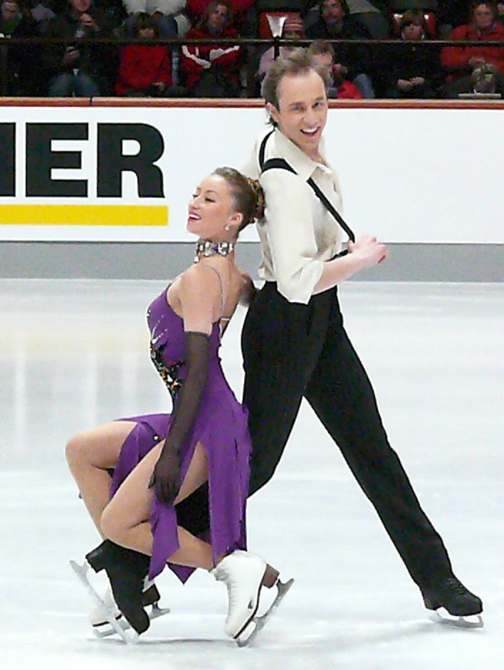 Nailya Zhiganshina and Alexander Gaszi at the Free Program of the German Championships 2007 in Oberstdorf